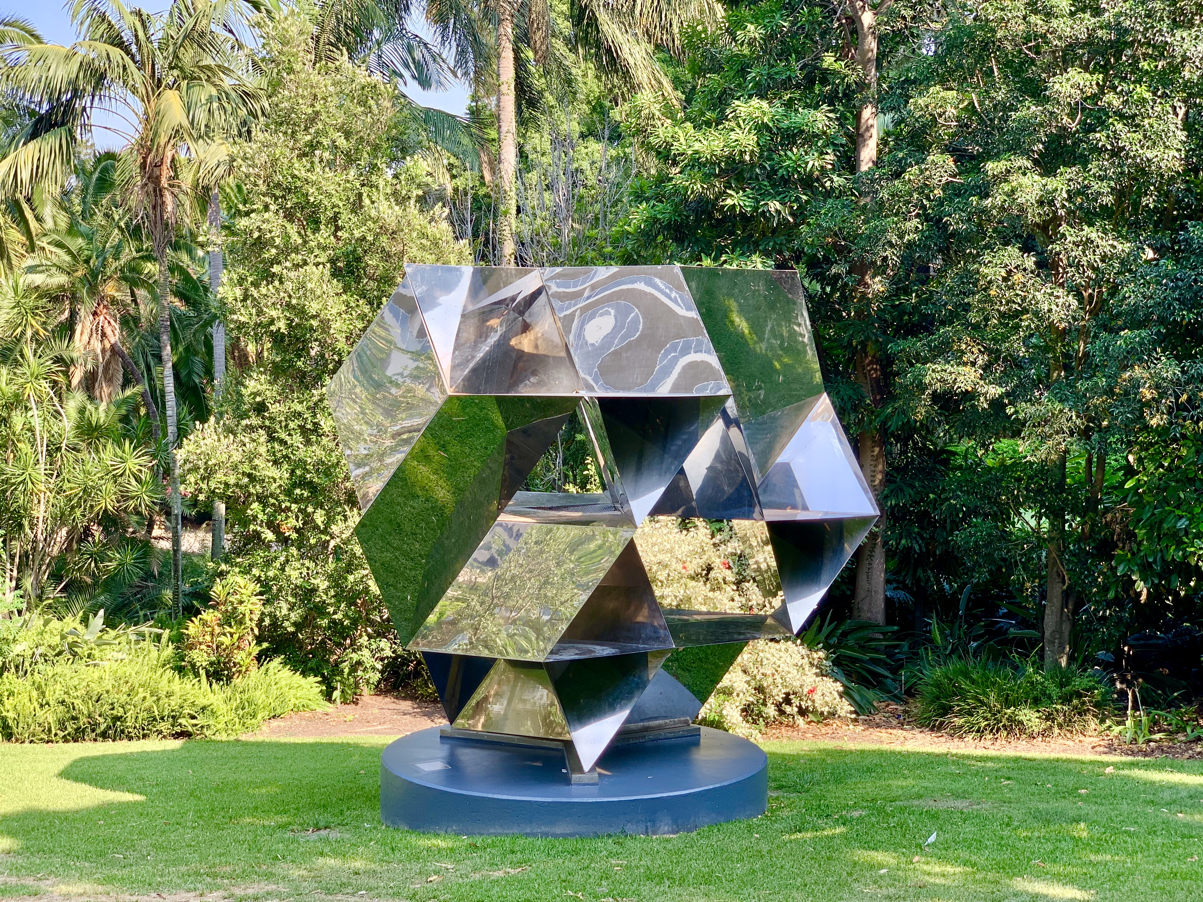 Morning Star sculpture, 2019